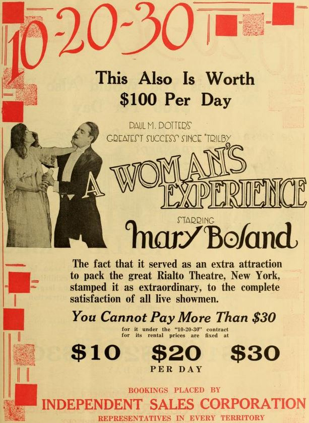 Ad for the American drama film A Woman's Experience (1919) with Mary Boland, on page 153 of the January 11, 1919 Moving Picture World. It was filmed in 1918 and released early in 1919.